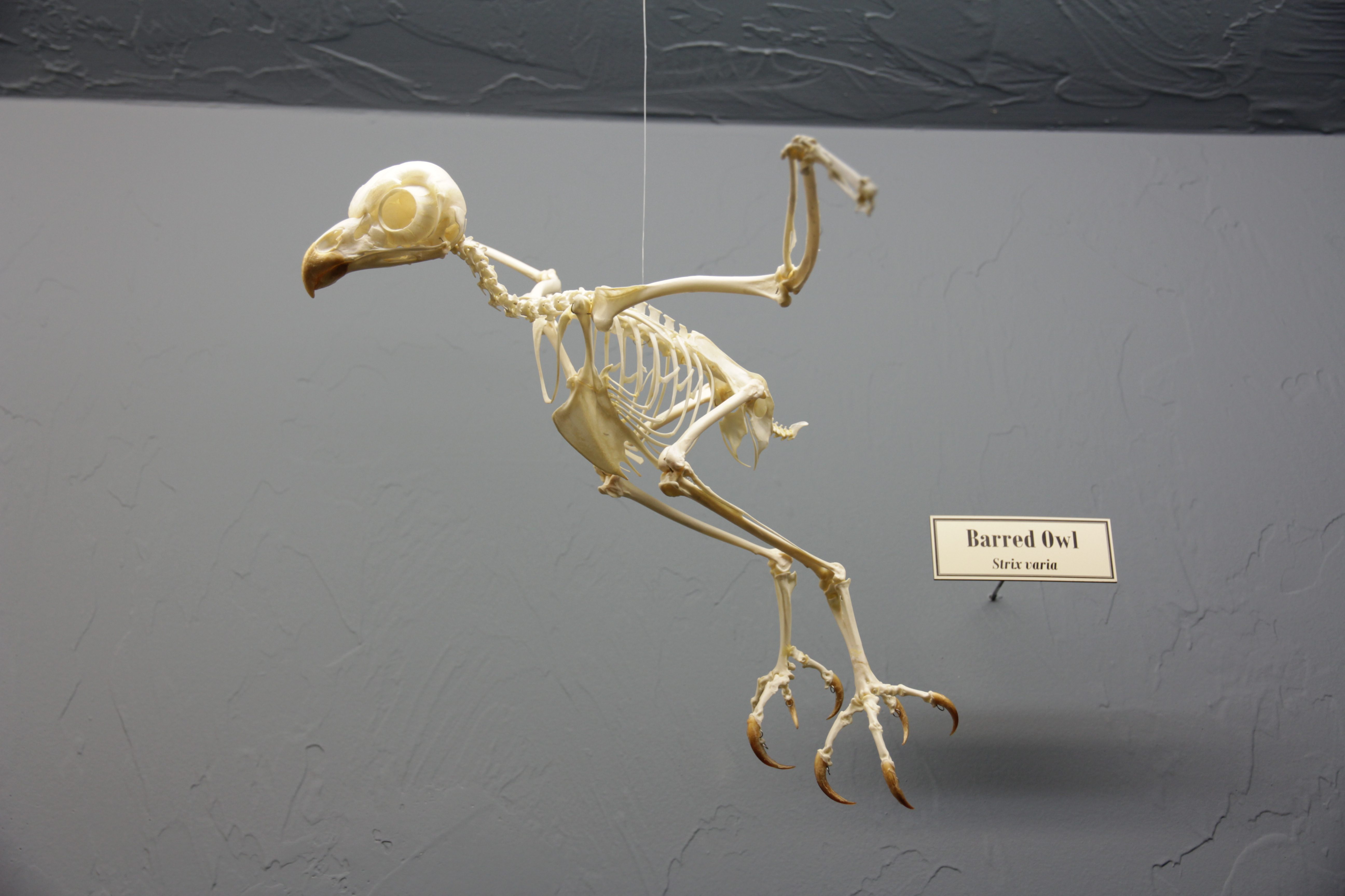 Barred owl skeleton on display at the Museum of Osteology in Oklahoma City, Oklahoma